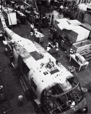 View of the production line of the U.S. Navy Sikorsky SH-60B Seahawk helicopter at Stratford, Connecticut (USA), in 1980.